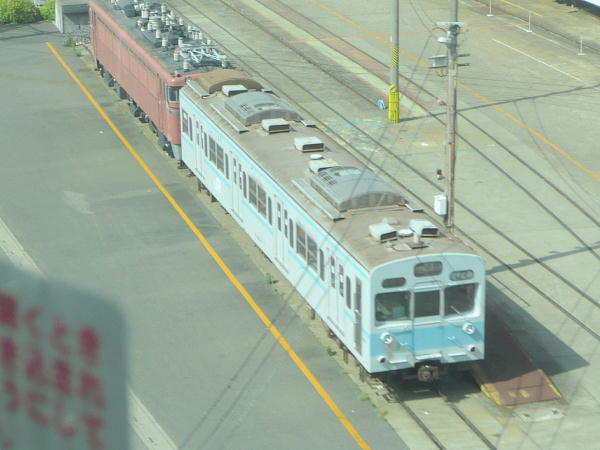 Former JR East 301 series EMU car KuMoHa 300-4 of set K2 stored inside Omiya Works in Saitama, Japan